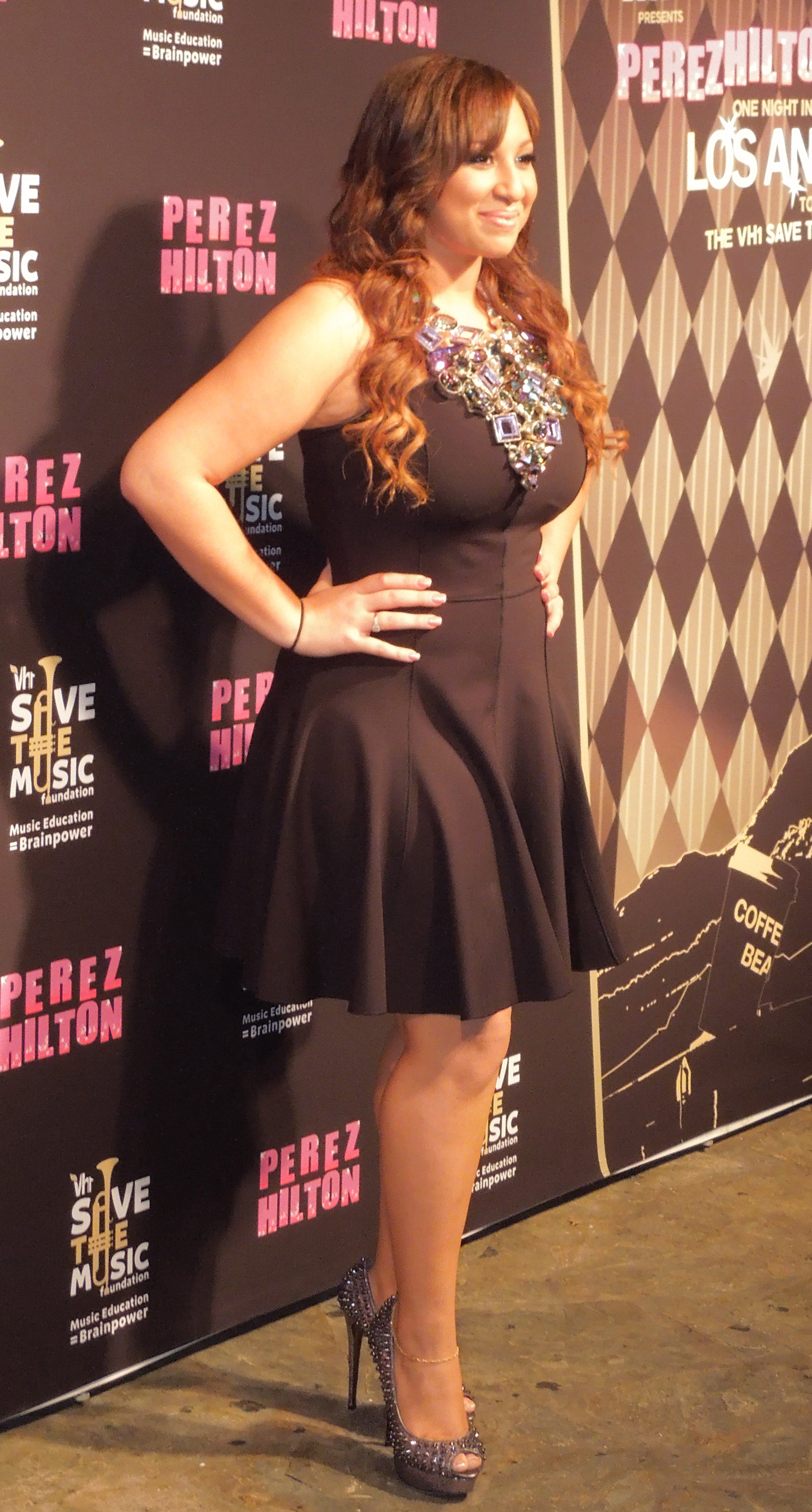 Melanie Amaro, winner of the first season of X-Factor, chats with the press. No one could take their eyes off her gorgeous necklace. (Sarah Mickelson, Neon Tommy)